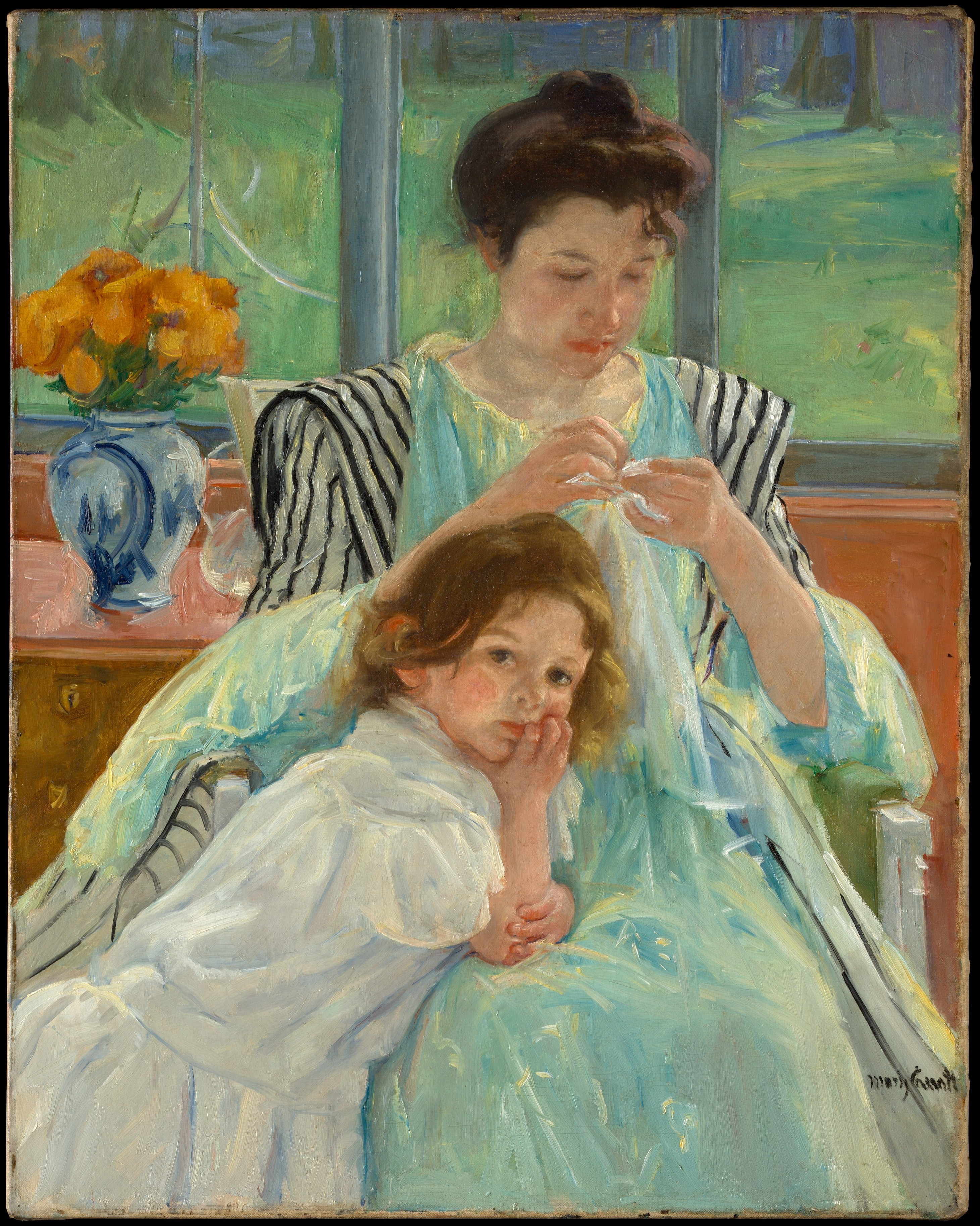 Mary Cassatt: Young mother sewing